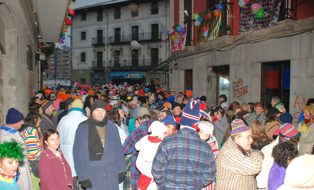 "Zaldunita" day. Carnival in Tolosa.